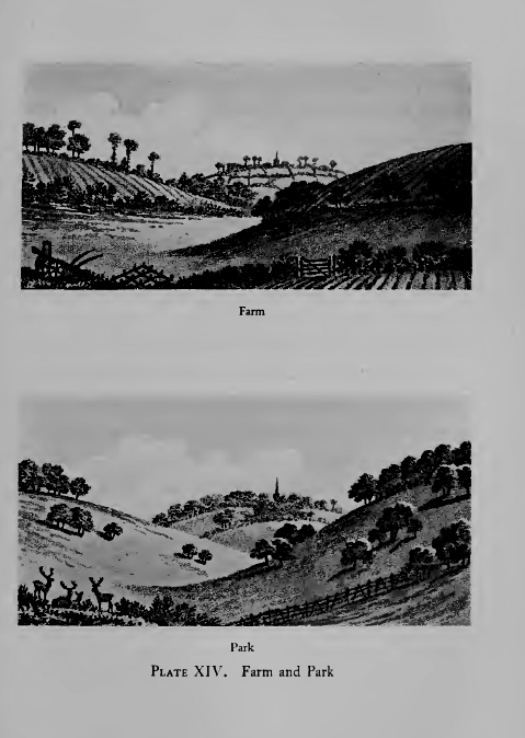 Plate XIV. Farm and park, image in book Humphry Repton (1752-1818), The Art of LANDSCAPE GARDENING, page 139